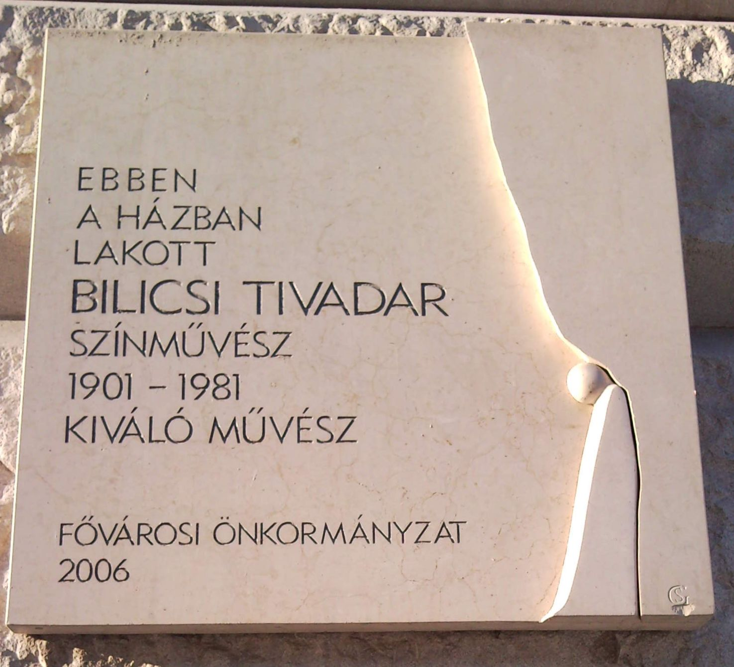 Tivadar Bilicsi commemorative plaque in Budapest District VI, Andrássy Avenue No 4.